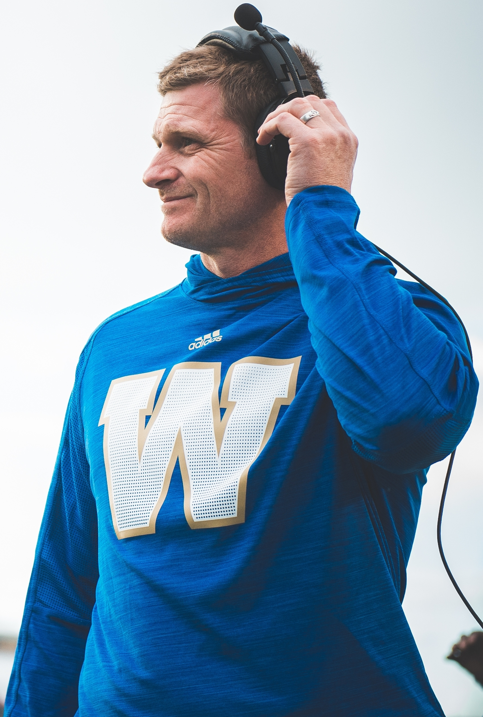 Winnipeg Blue Bombers head coach Mike O’Shea during the pre-season game at TD Place in Ottawa, ON on Monday June 13, 2016. (Photo: Johany Jutras)